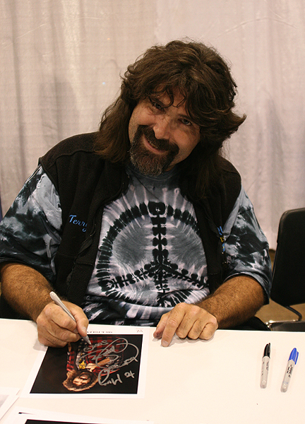 Wrestling hardcore Legend Mick Foley